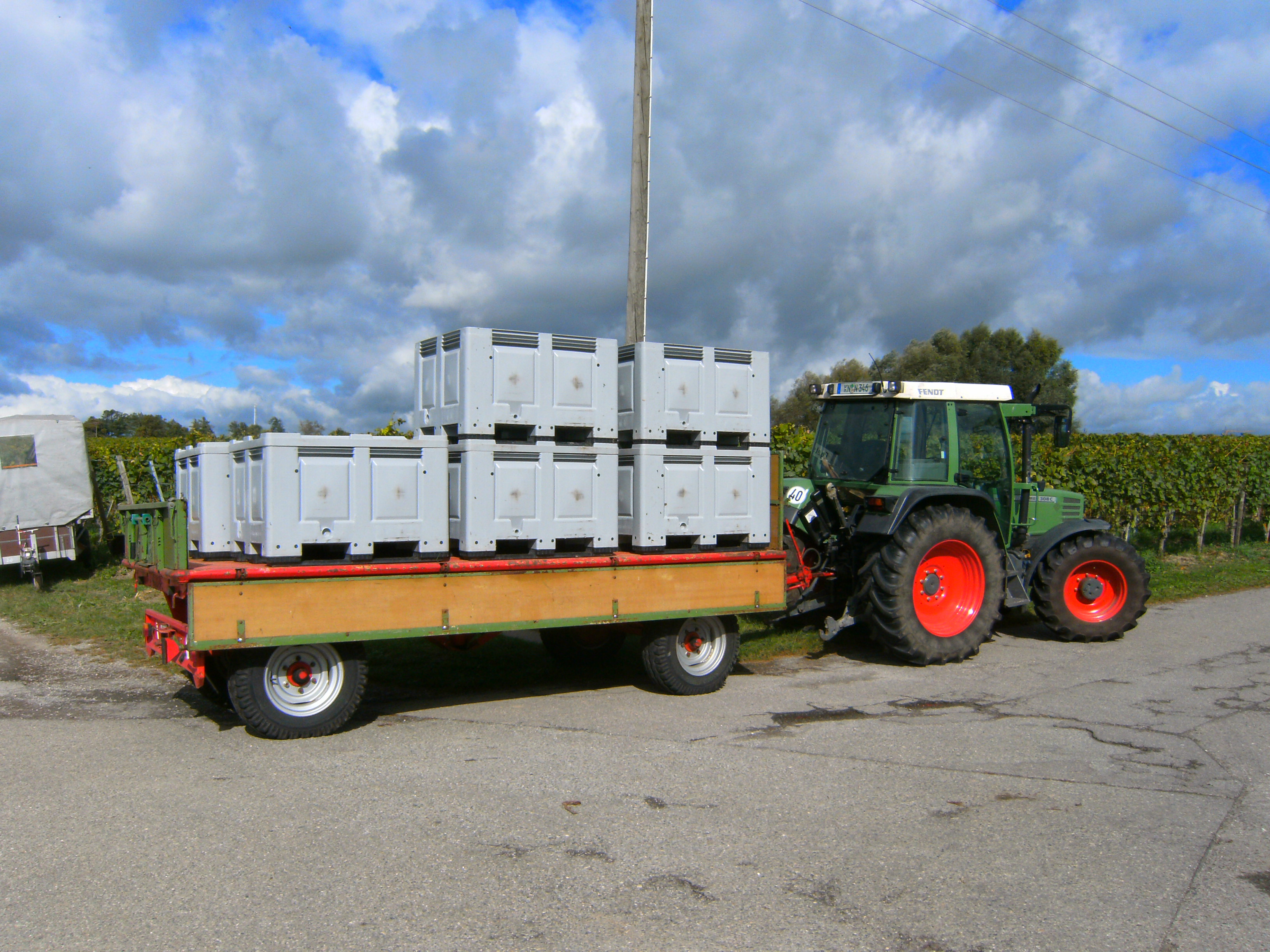 Meersburg, Haltnau, Germany: Harvesting the grapes by winery Spitalkellerei of Konstanz.